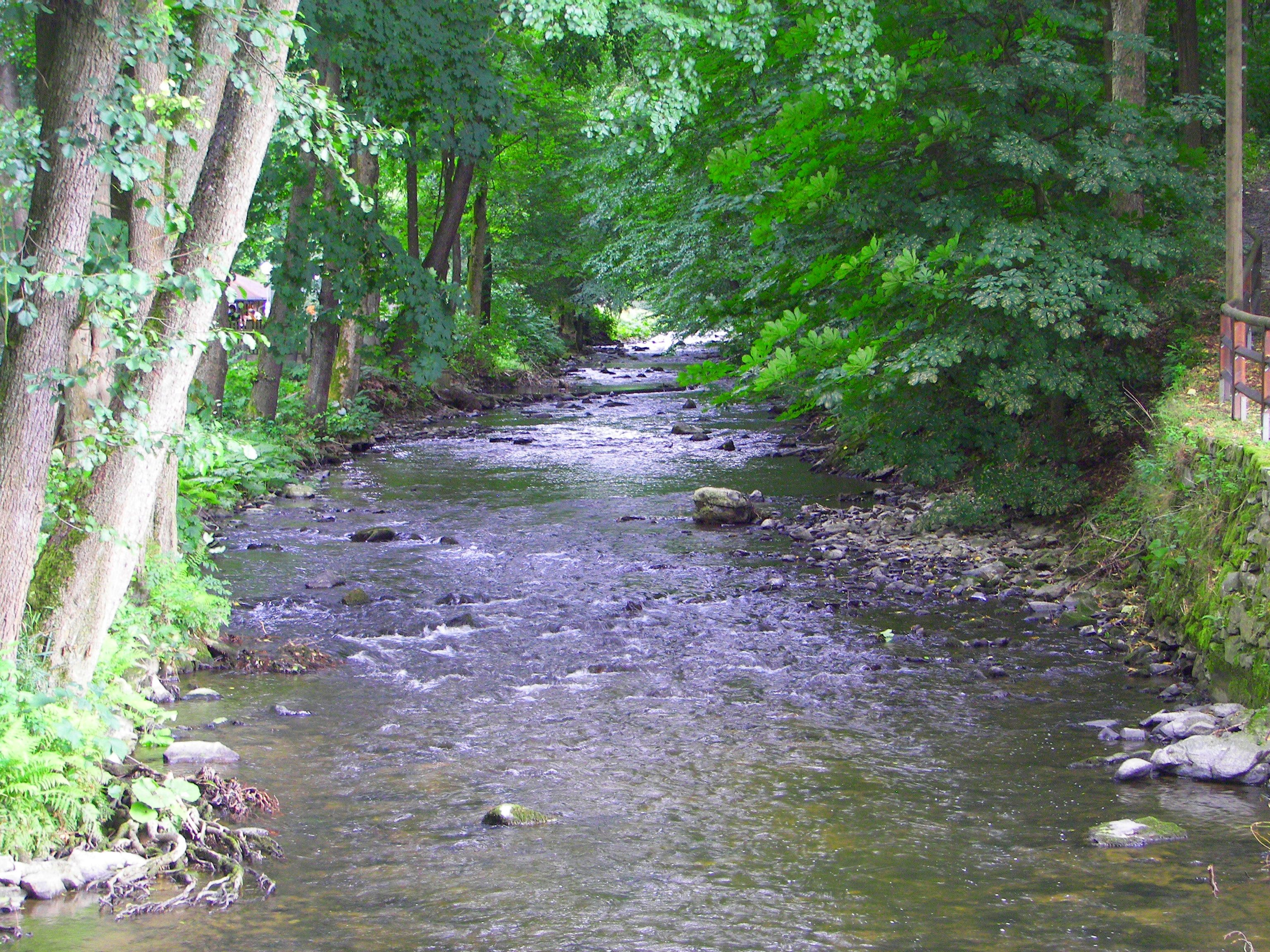 Ölschnitz (White Main) in the Bad Berneck spa park